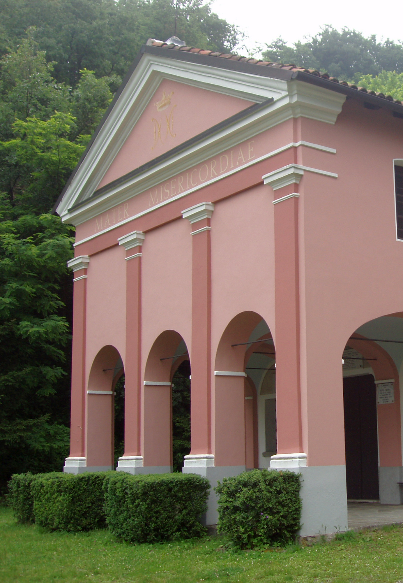 Santuario di Montaldero (Arquata Scrivia, Italy): front porch